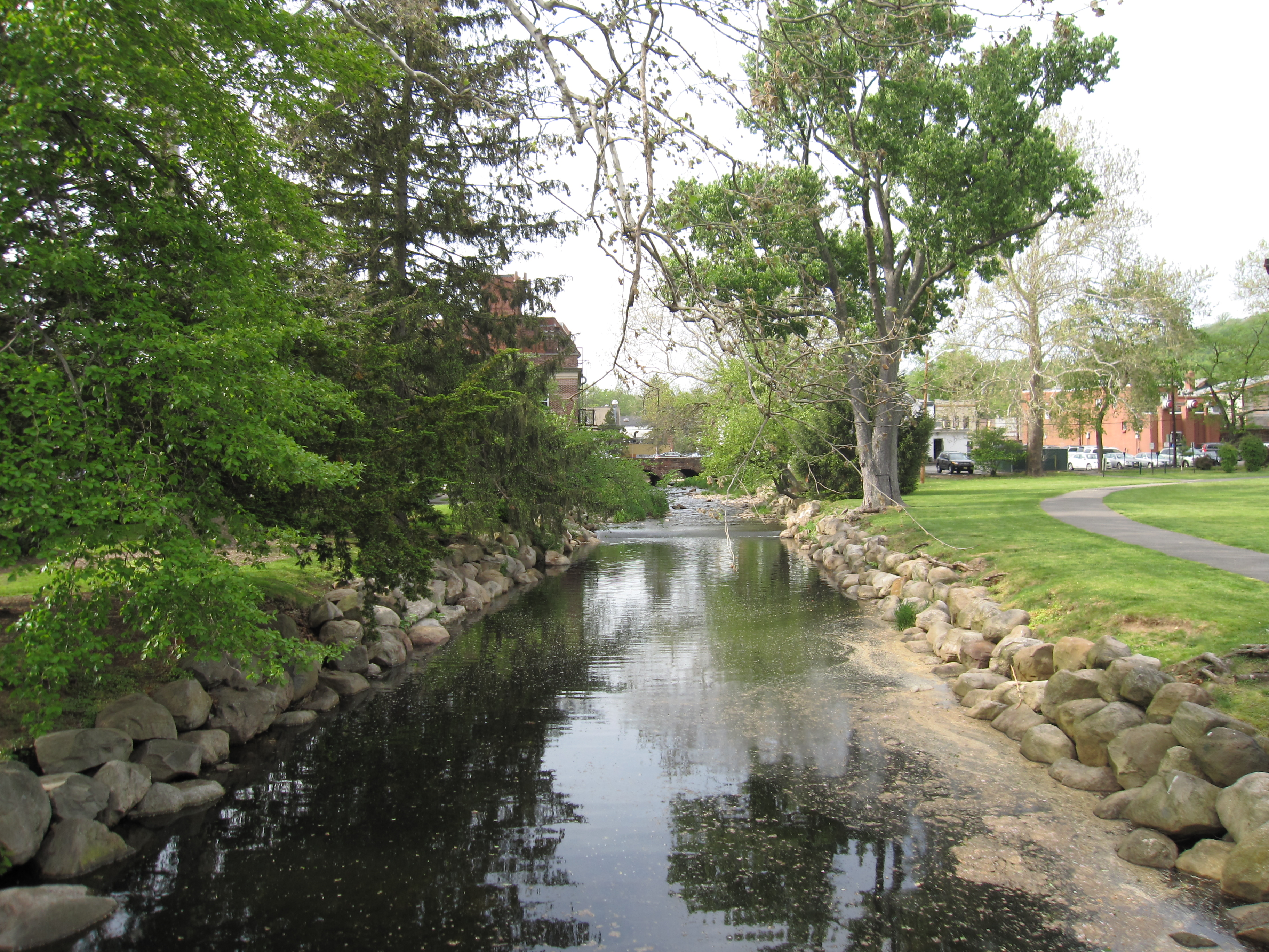 Brook next to Taylor Park, Millburn, New Jersey.